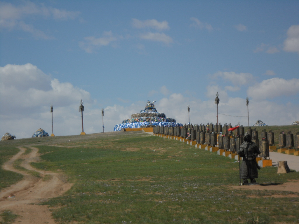 Aobao (mound shrine) in Hohhot, with a path of prayer wheels leading to it.